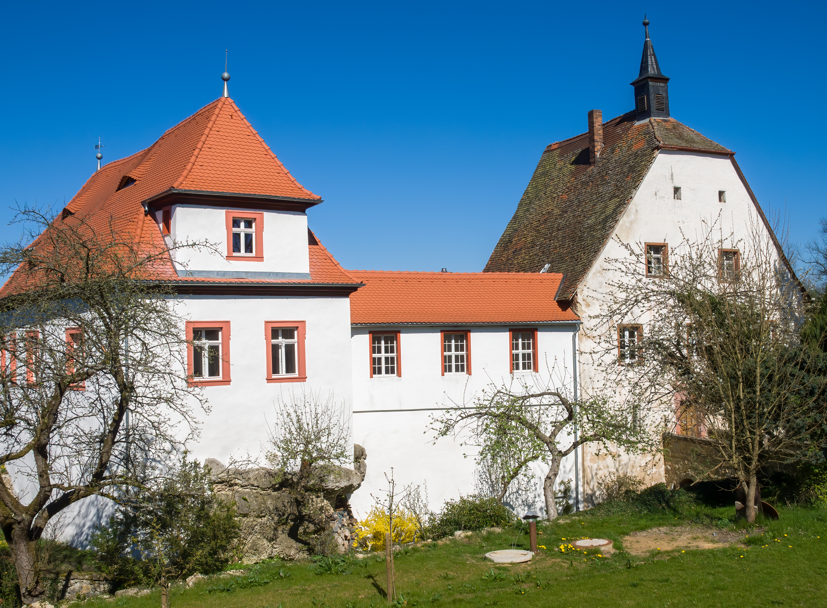 Plankenfels castle